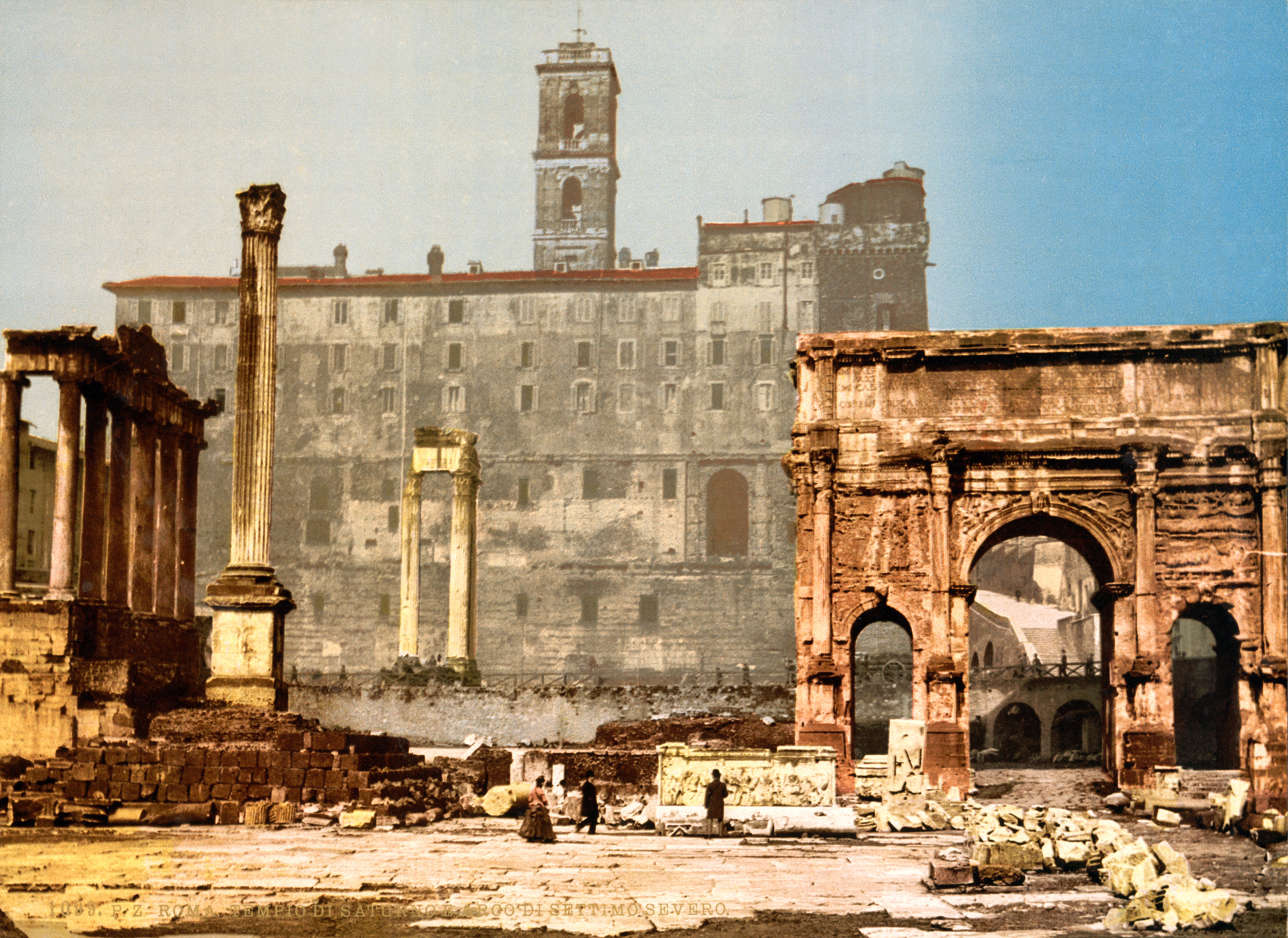 Photochrom print by Photoglob Zürich, between 1890 and 1900. From the Photochrom Prints Collection at the Library of Congress More photochroms from Italy | More photochrom prints [PD] This picture is in the public domain.